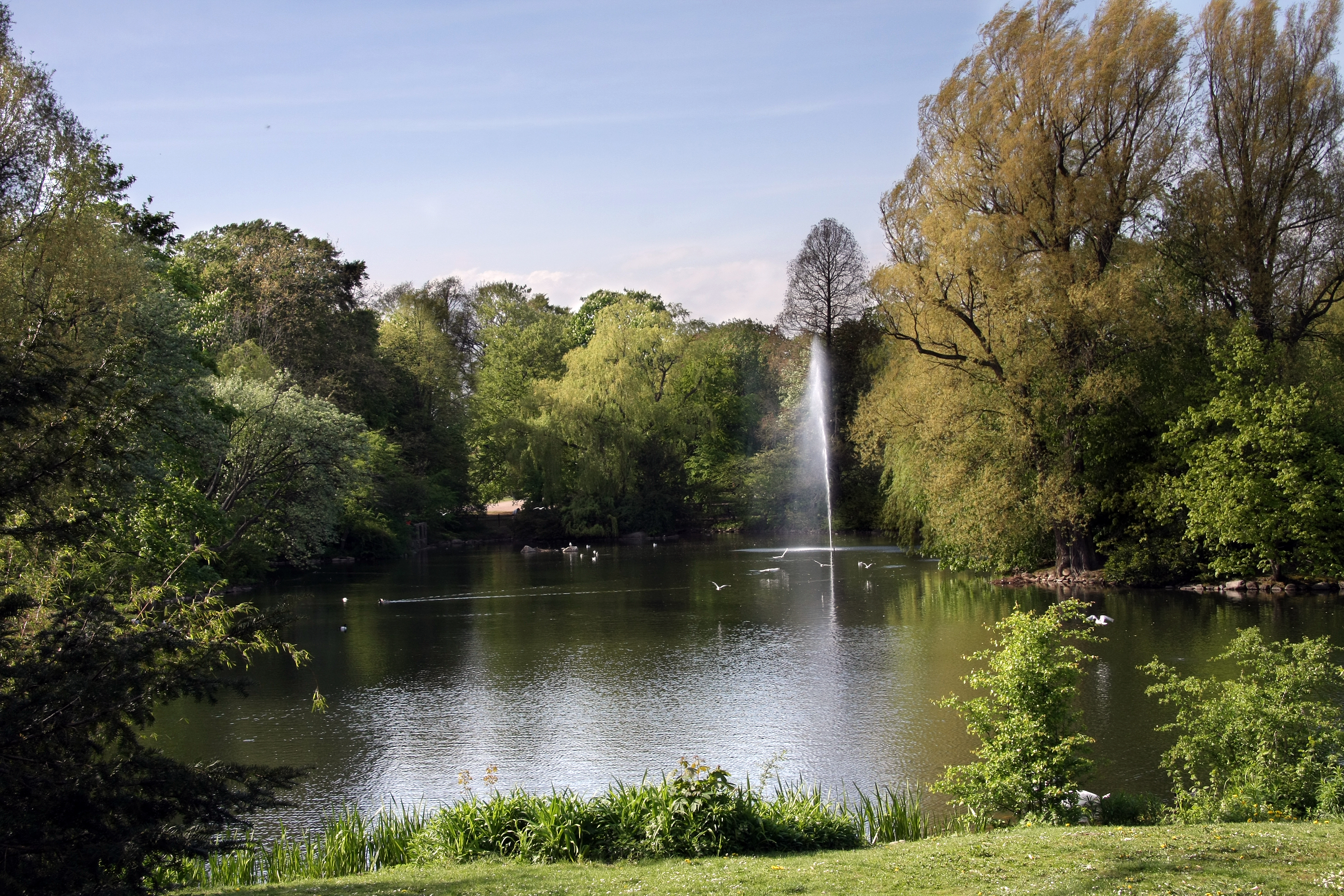 Stadsparken city park in Lund, Sweden